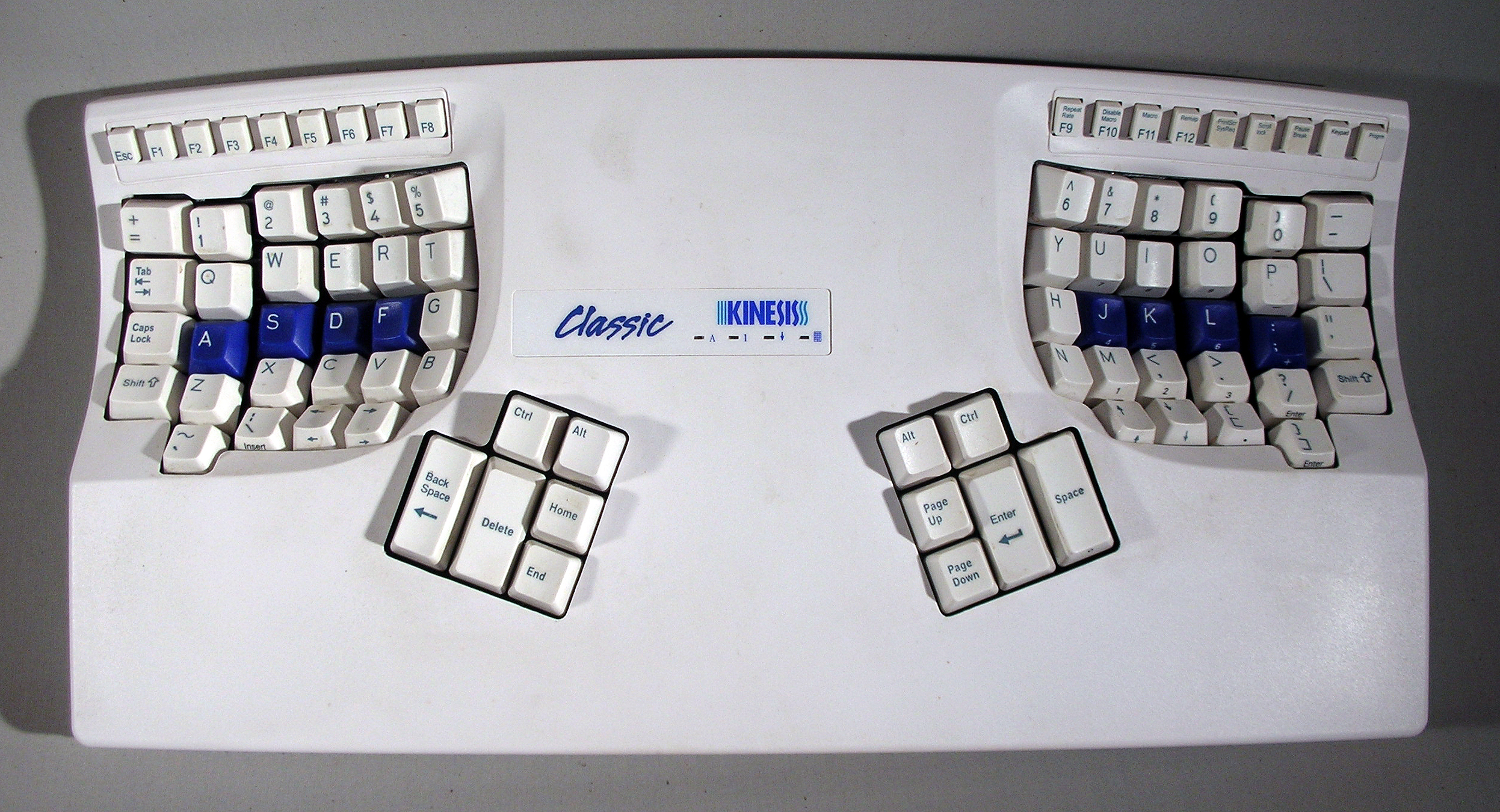 Kinesis Contoured Keyboard (Classic)